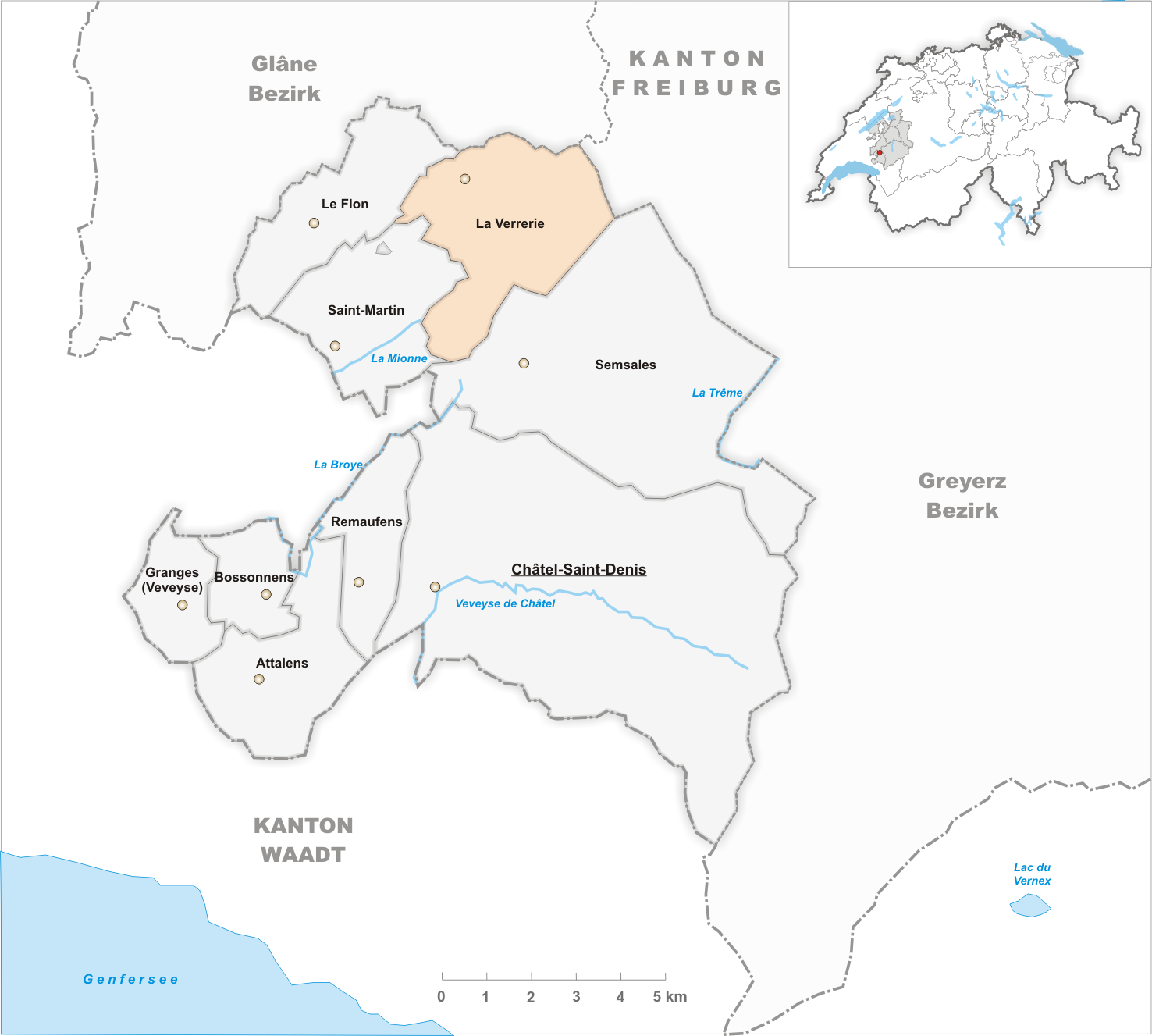 Municipality La Verrerie